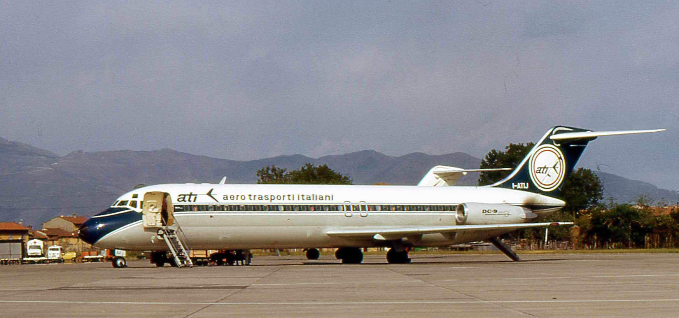 Aero Trasporti Italiani McDonnell Douglas DC-9-32, I-ATIJ, c/n 47477 delivered on 1971-02-26 taken at Pisa Galileo Galilei Airport in 1973.